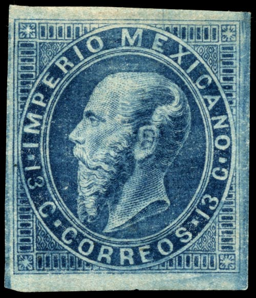 Mexico 13-centimo engraved Maximilian stamp of 1866